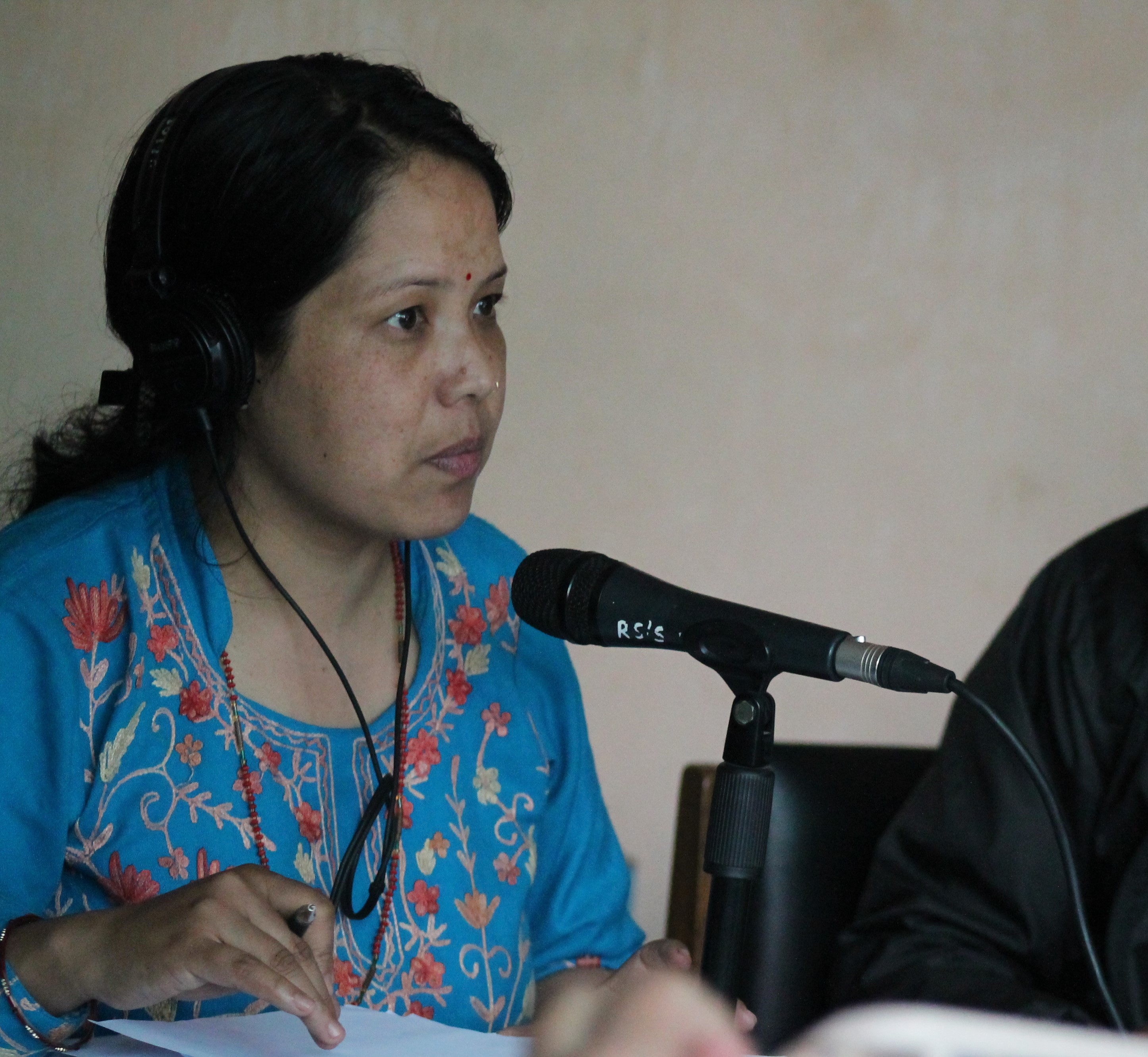 Women Radio Journalist